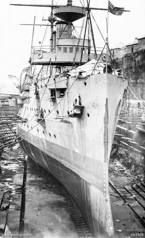 Photograph of Australian cruiser HMAS Encounter in drydock in Sydney.